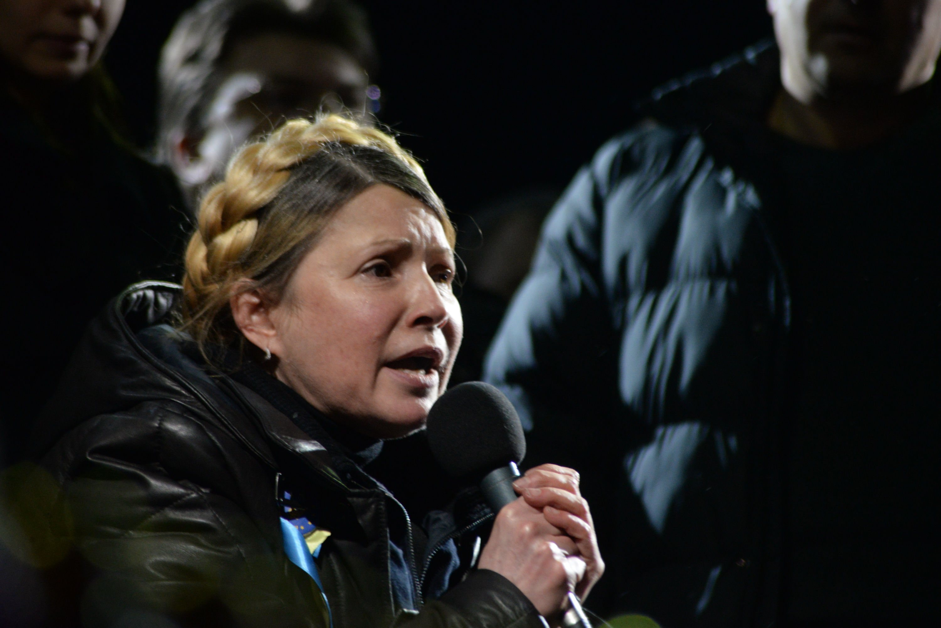 Yulia Tymoshenko addressing Euromaidan with a speech. Kyiv, Ukraine. Events of February 22, 2014.